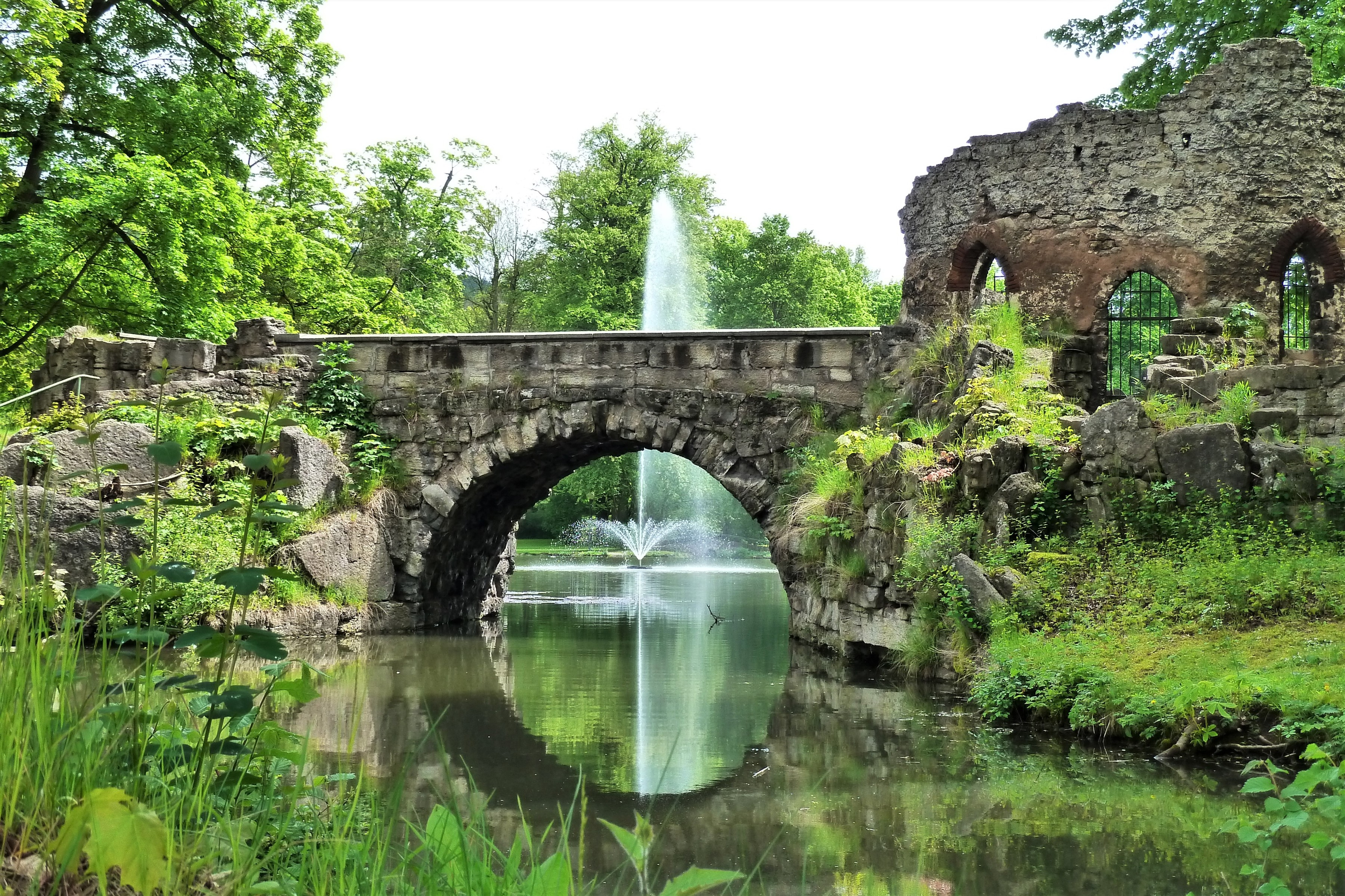 View to the English Garden park in City Meiningen, Germany